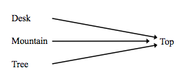 an example of a RAT problem created in powerpoint